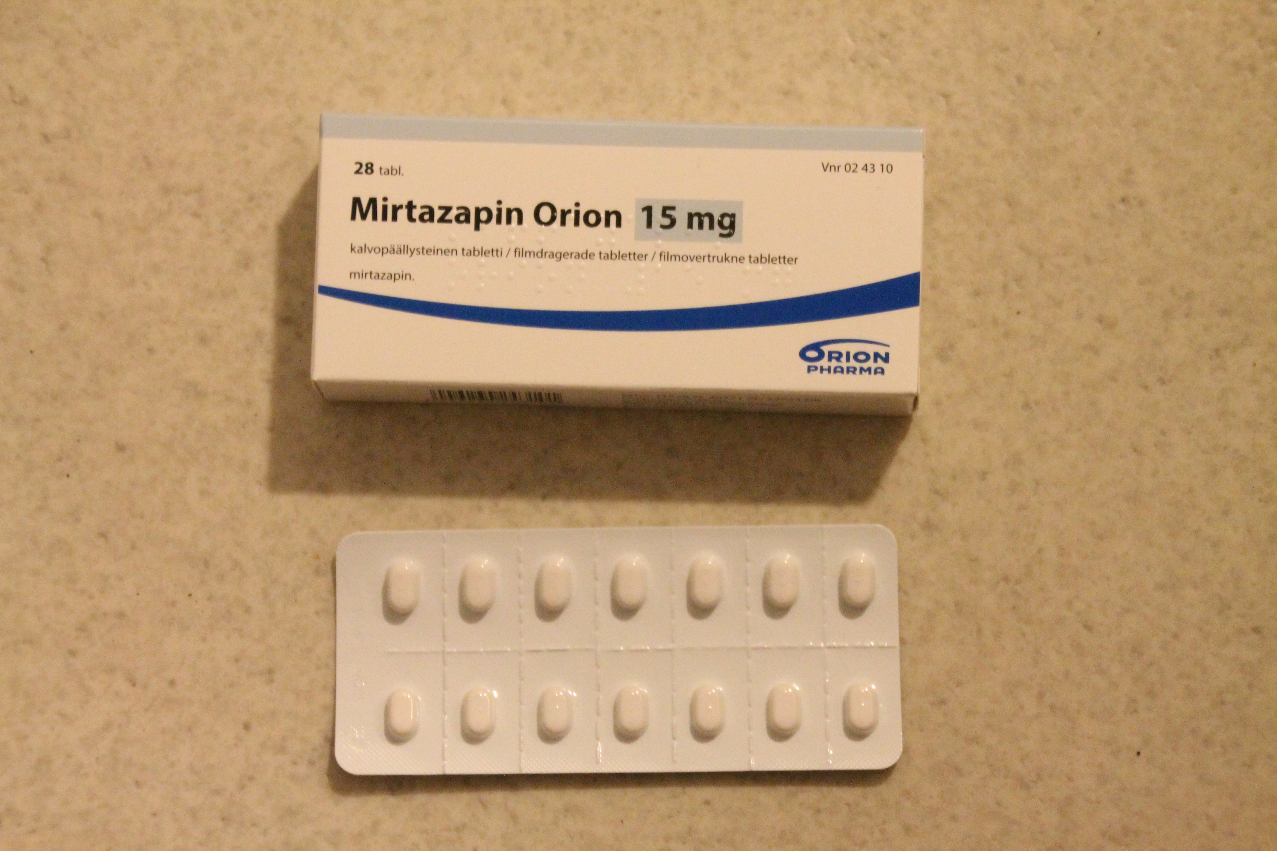 Mirtazapin Orion 15mg -package and a blister pack.